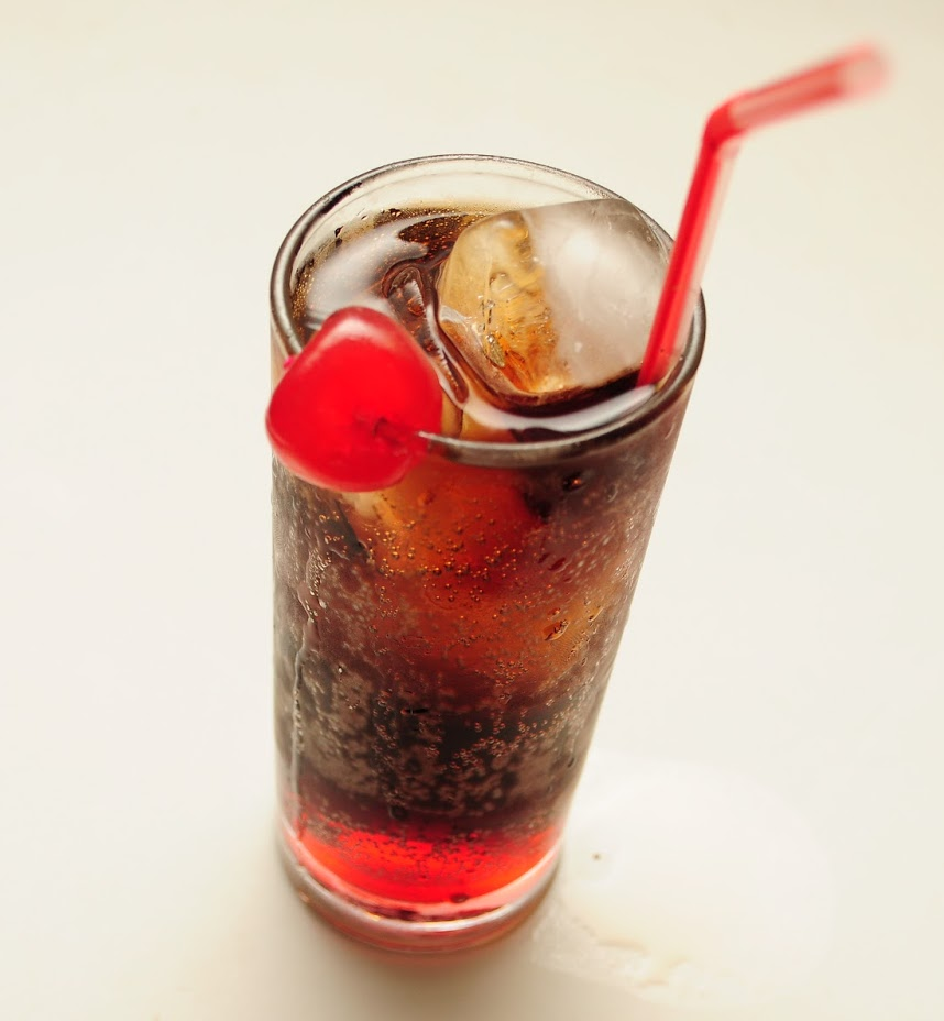 This demonstrates the look of a Roy Rogers